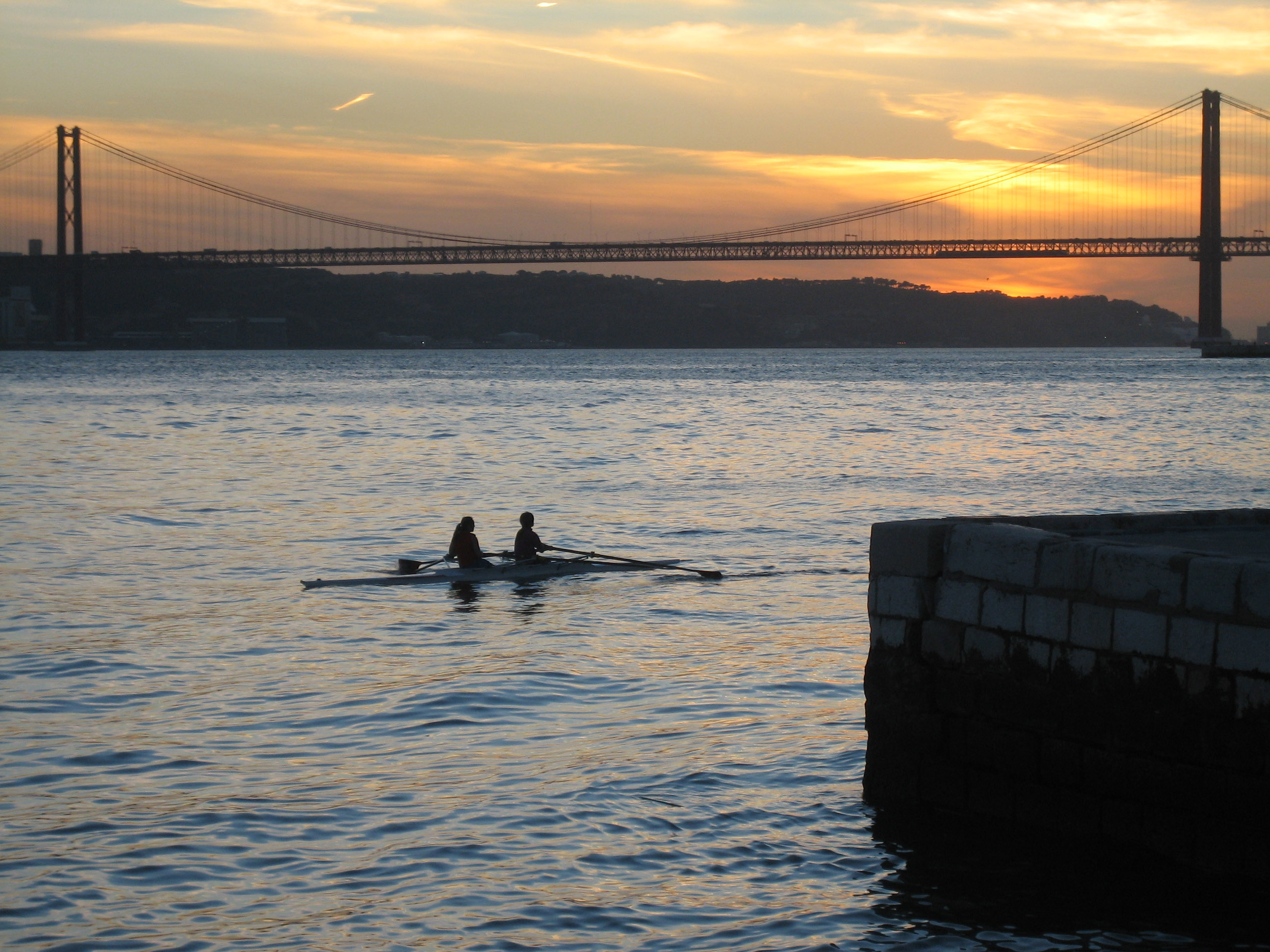 Author: rimasi In short: you are free to share and make derivative works of the file under the conditions that you appropriately attribute it, that you distribute it only under a license identical to this one, and also that you tell me about it by sending me an email!